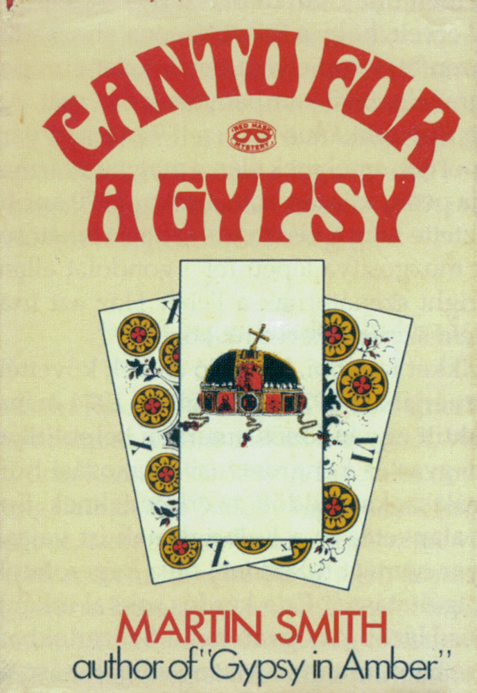 Martin_Smith_-_Canto_for_Gipsy_-_book_cover,_1972label QS:Len,"Martin_Smith_-_Canto_for_Gipsy_-_book_cover,_1972" label QS:Lhu,"Martin_Smith_-_Canto_for_Gipsy_-_könyvborító,_1972"